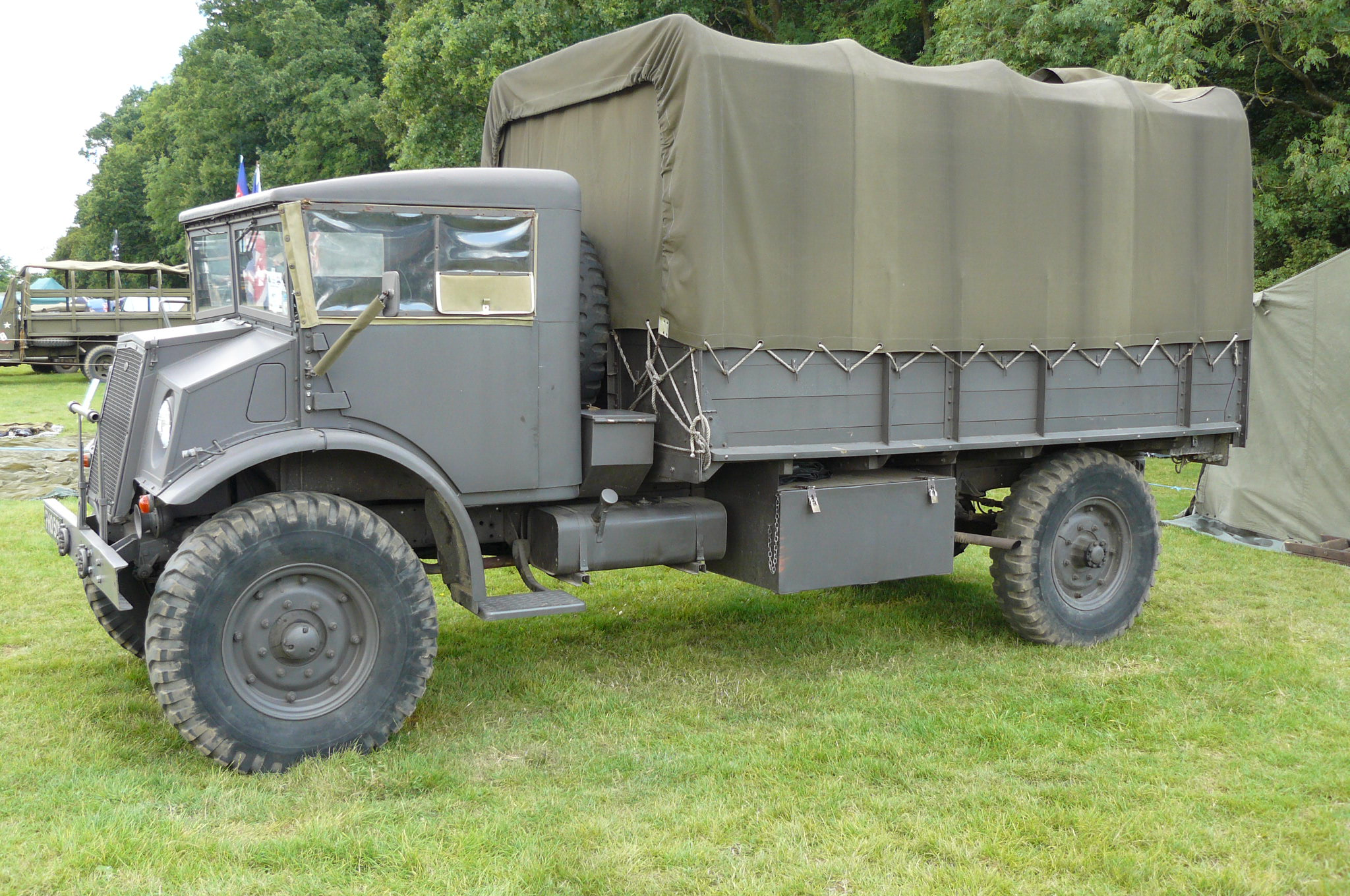 CMP Ford F60L. Seen at War & Peace show, England. Date July 2011